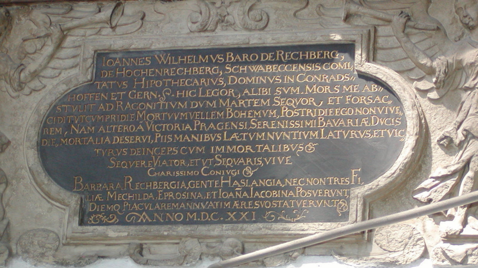 Munich, St.Peter,epitaph, 17th century